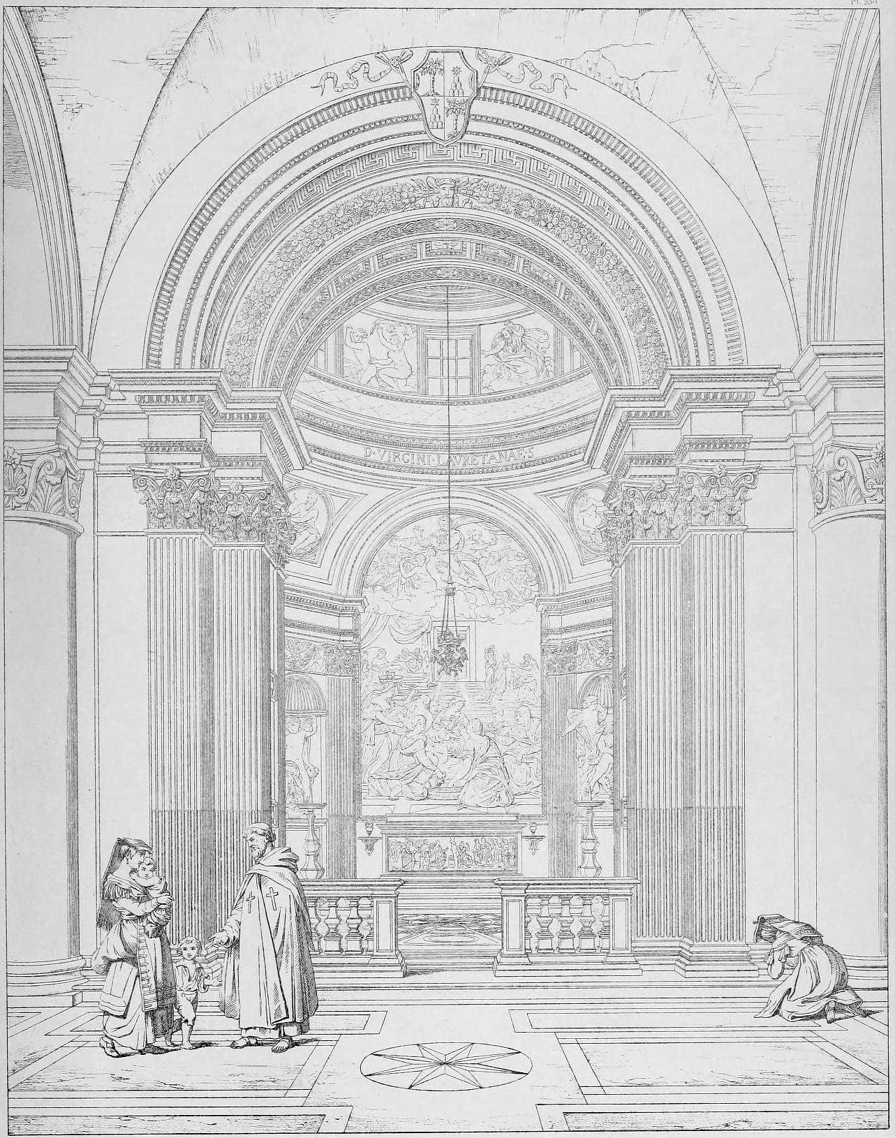 The Chigi Chapel in the Santa Maria del Popolo, Rome, an etching by Paul Letarouilly.